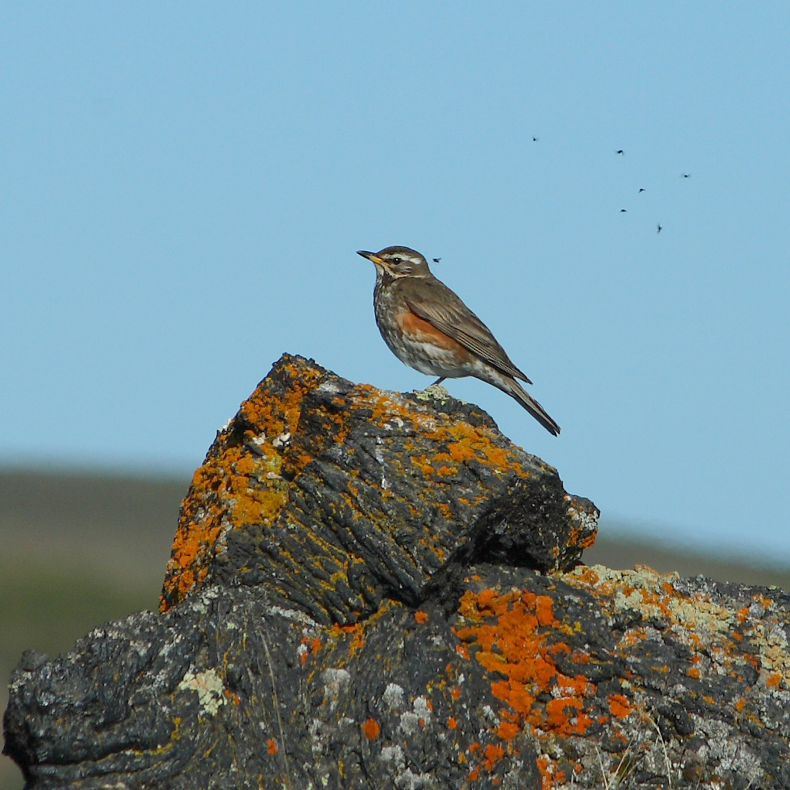 Redwing